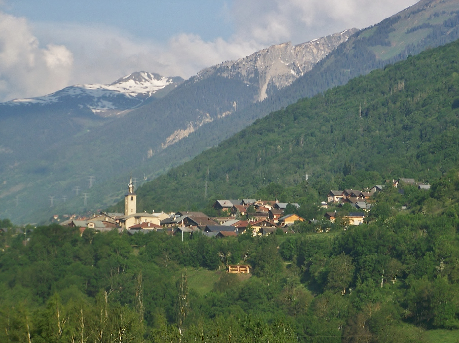 General sight of commune of Bellentre in Tarentaise valley, Savoie, France.